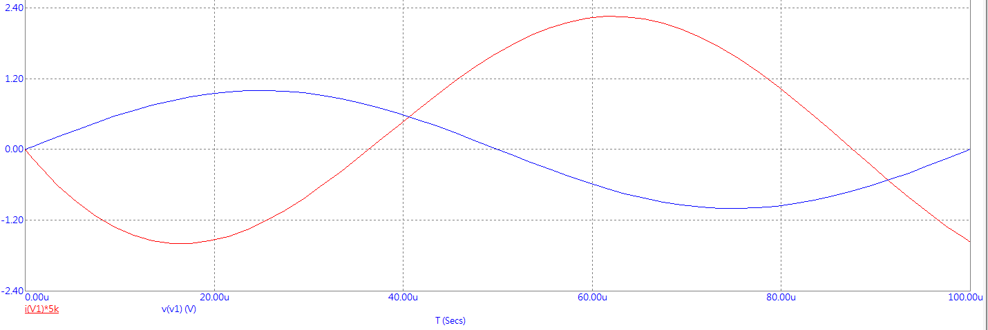 N/A